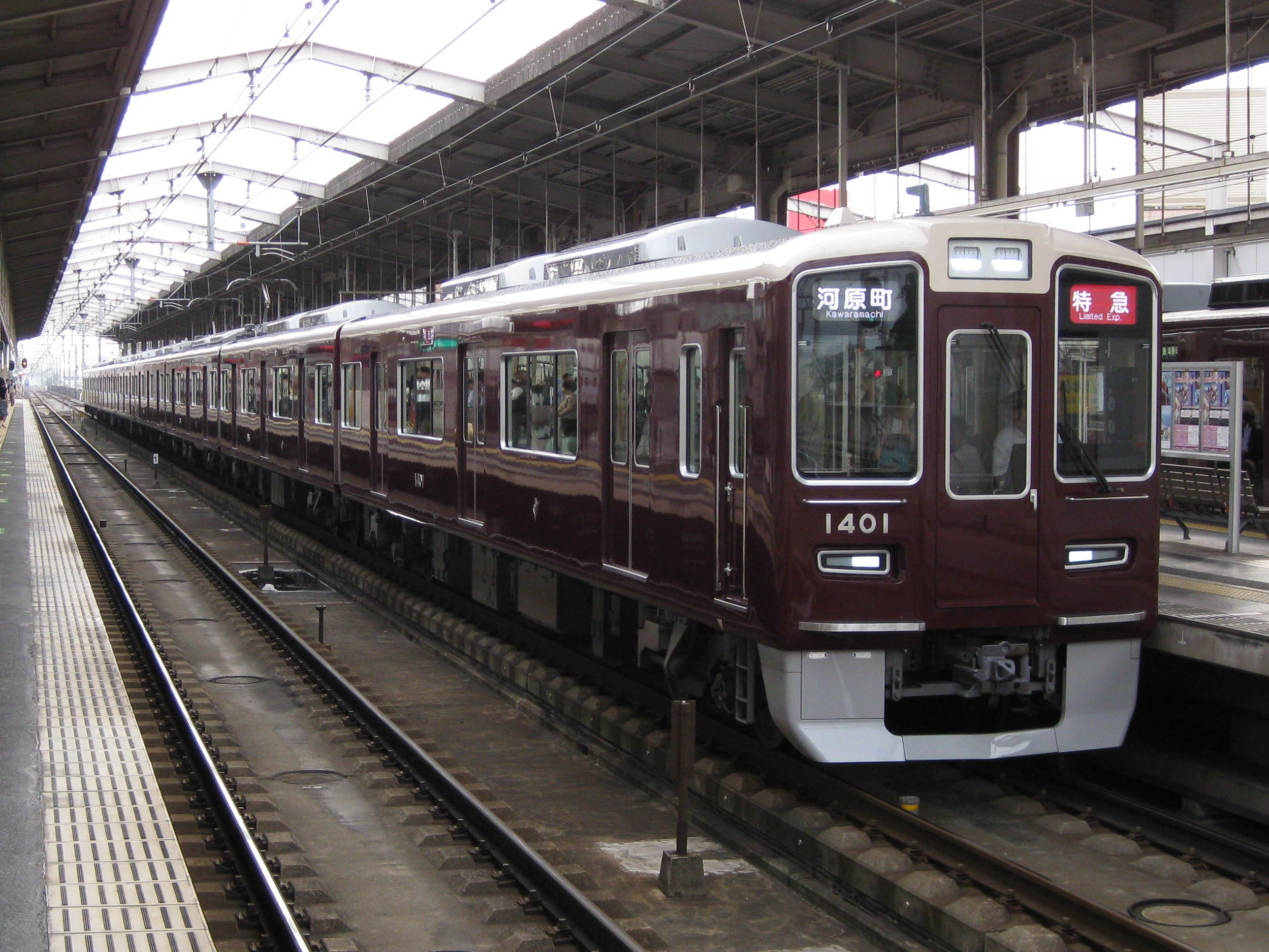 Hankyu 1300 series EMU set 1301 at Takatsuki-shi Station on the Hankyu Kyoto Line